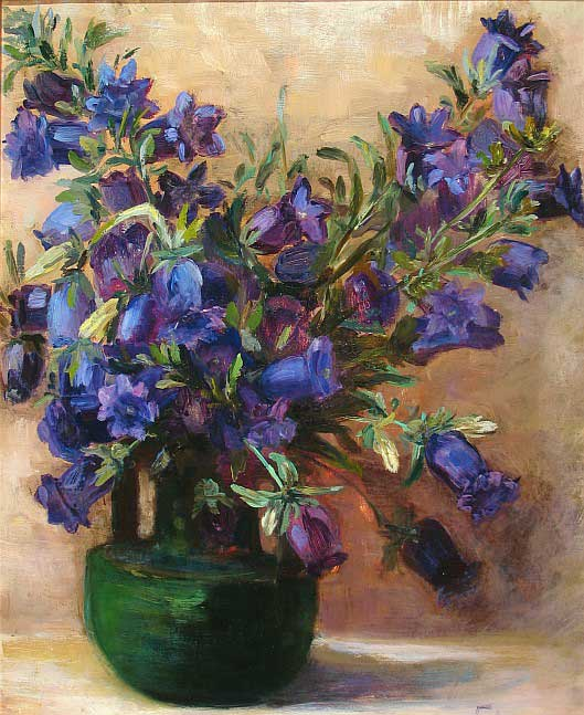 Maggie Laubser. Still Life: Flowers in Vase; Blue Flowers, oil on canvas, 520 x 420 mm DM cat. no. 17